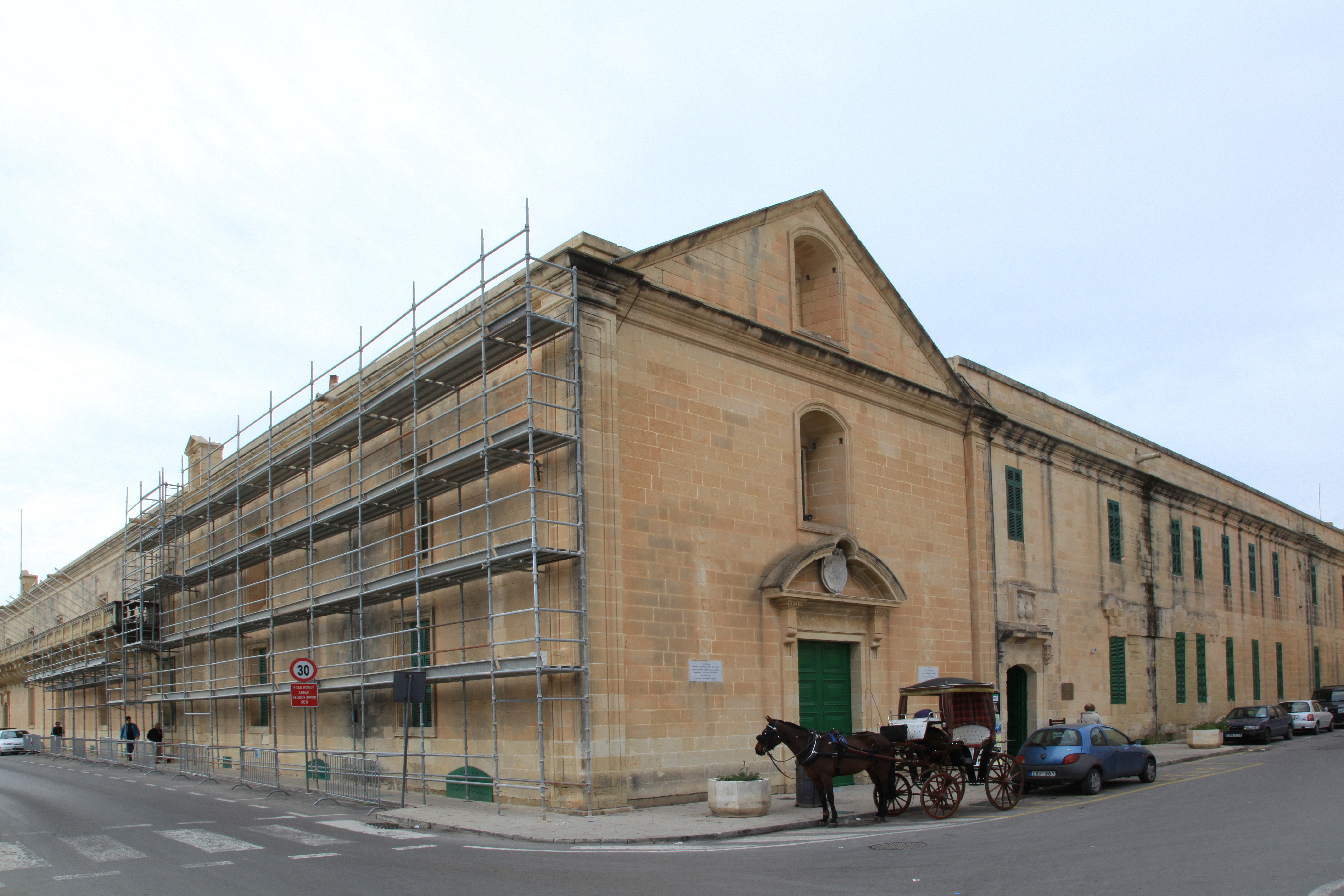 Mediterranean Conference Centre, Triq il-Mediterran / Triq it-Tramuntana in Valletta, Malta